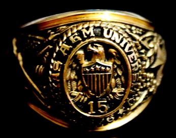 Aggie Ring of the Class of 2015 of Texas A&M University.